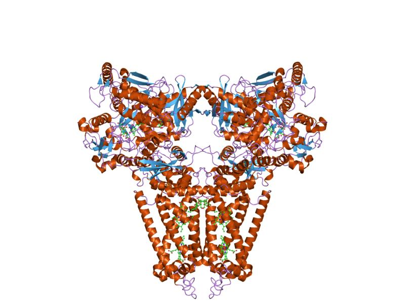 Cartoon representation of the molecular structure of protein registered with 2bs3 code.